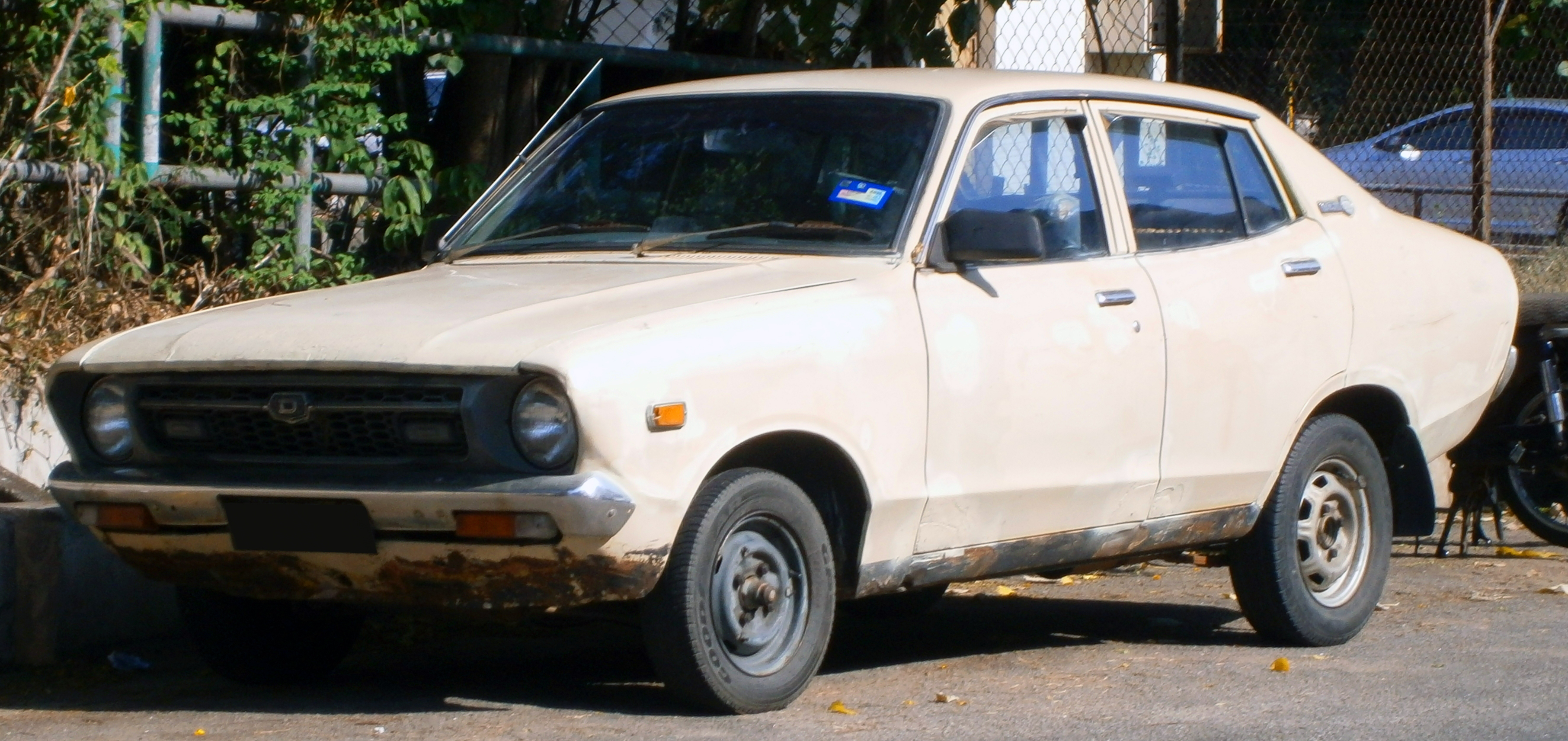 1973-1977 Datsun 120Y (B210) saloon in Ipoh, Malaysia.Designed & Assembled in Japan